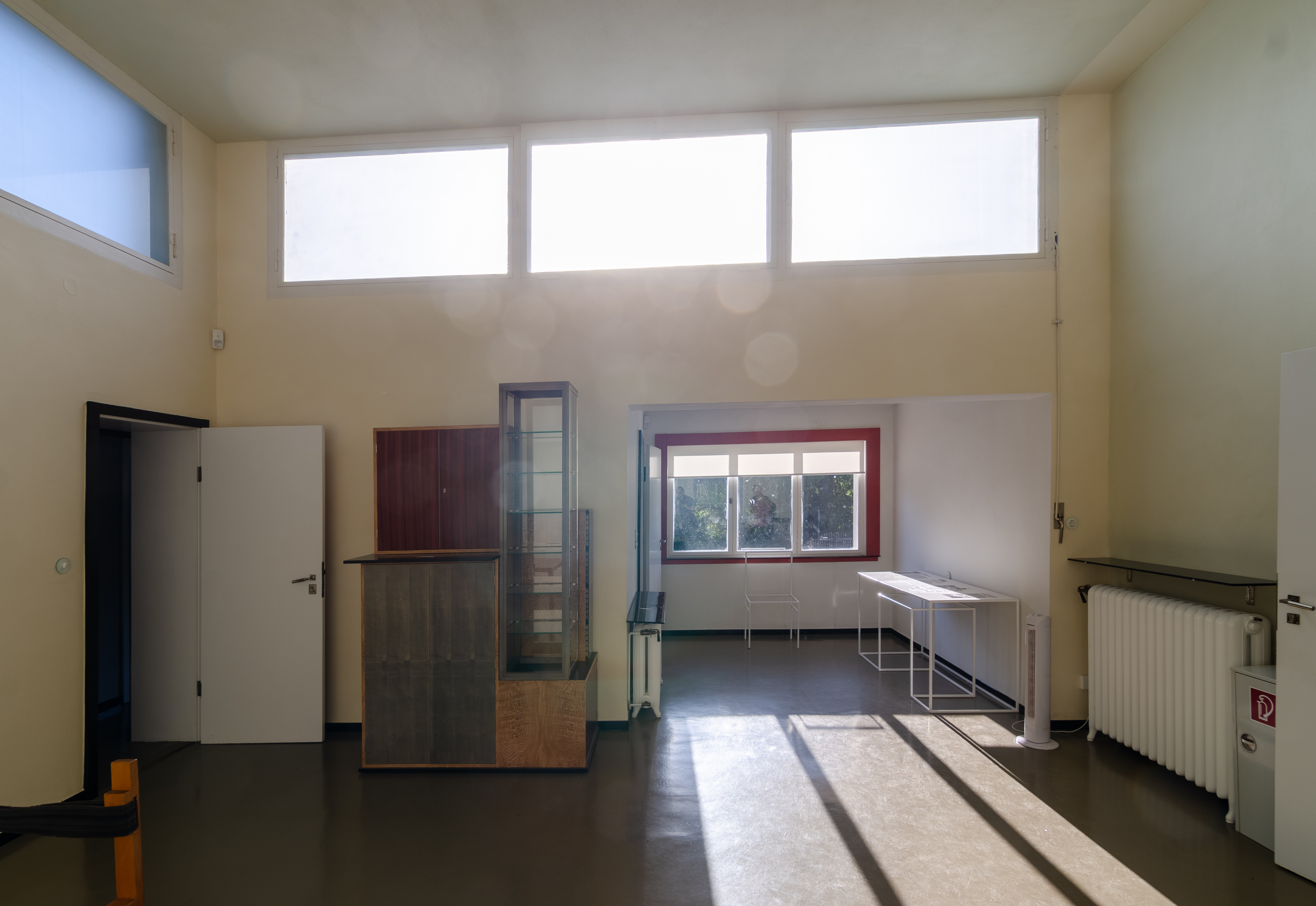 Weimar (Thuringia, Germany) – Haus am Horn – interior – lounge